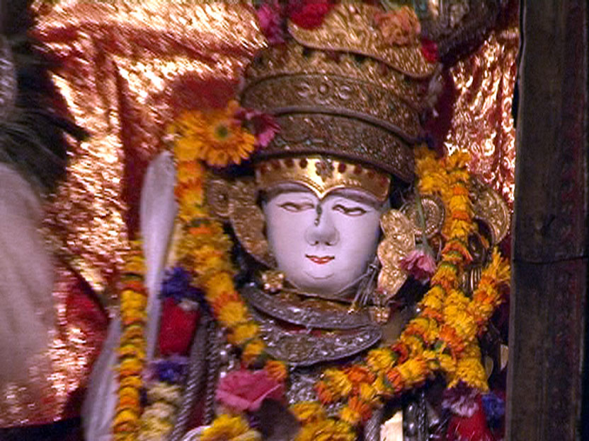 Statue of of seto Machchhindra naath.